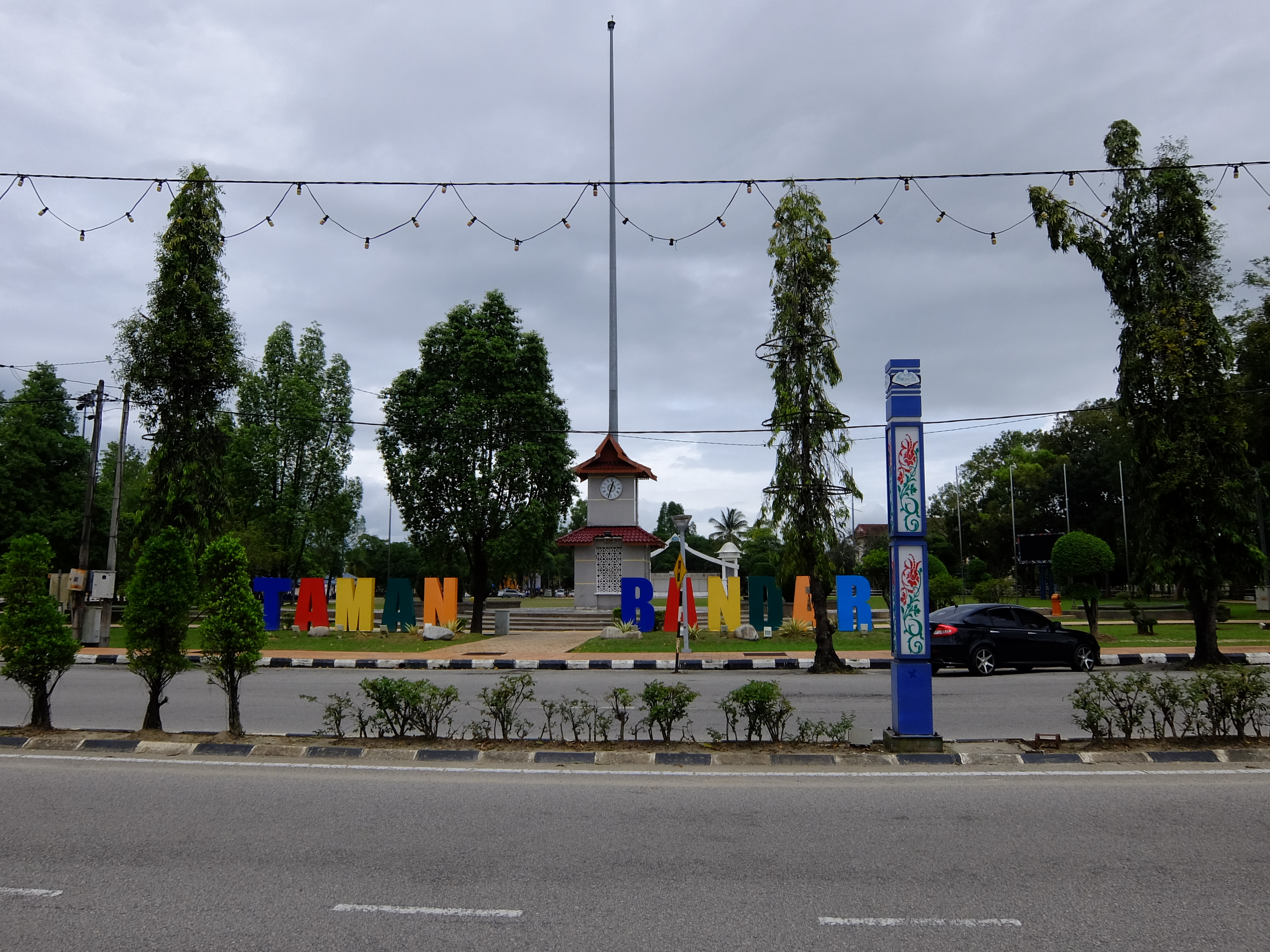 Town Park, Chukai, Kemaman, Terengganu, Malaysia